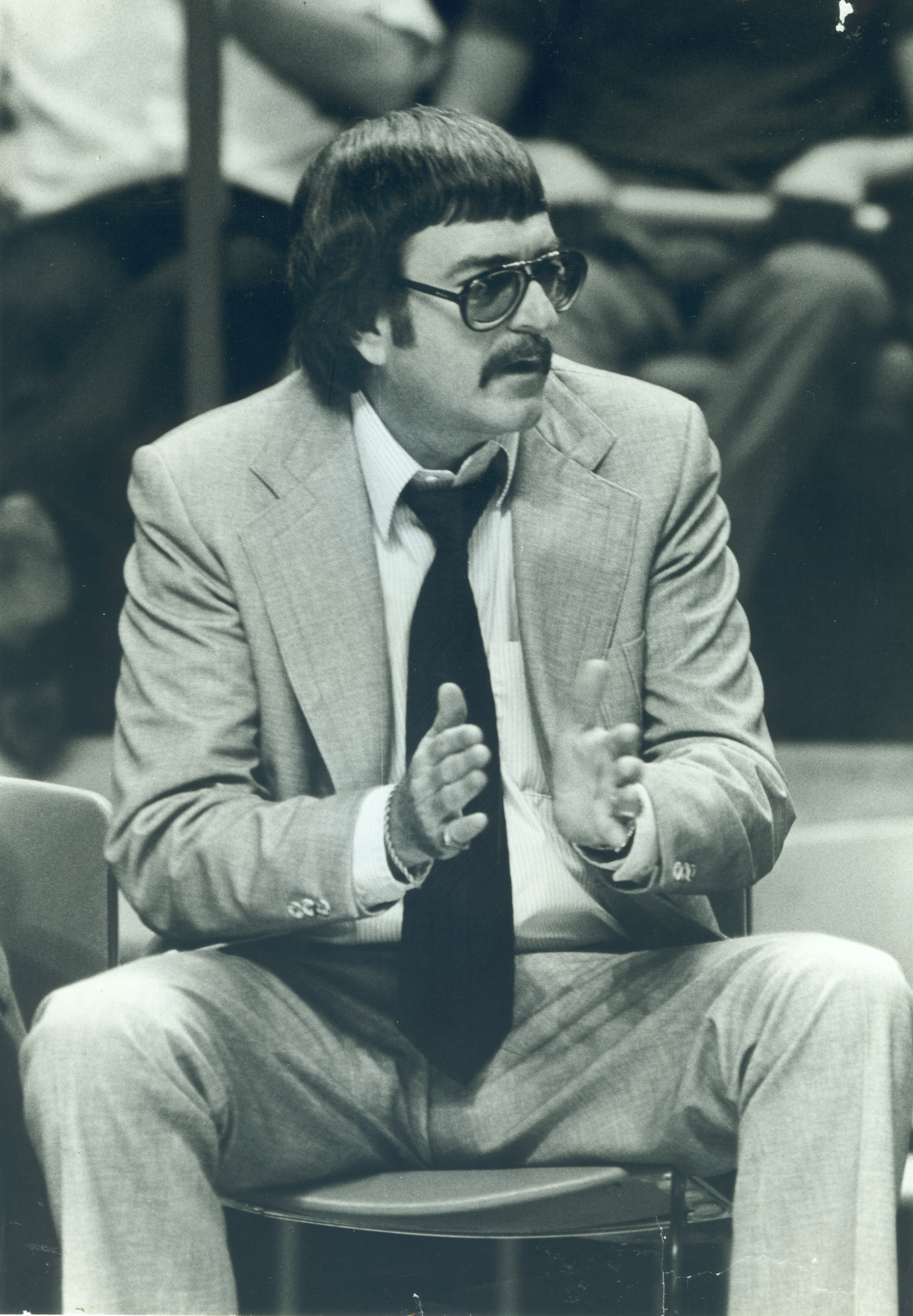 Bill Blakeley, Head Men's Basketball Coach, University of North Texas, 1975-76 to 1982-83 (picture taken sometime between 1975-1983)